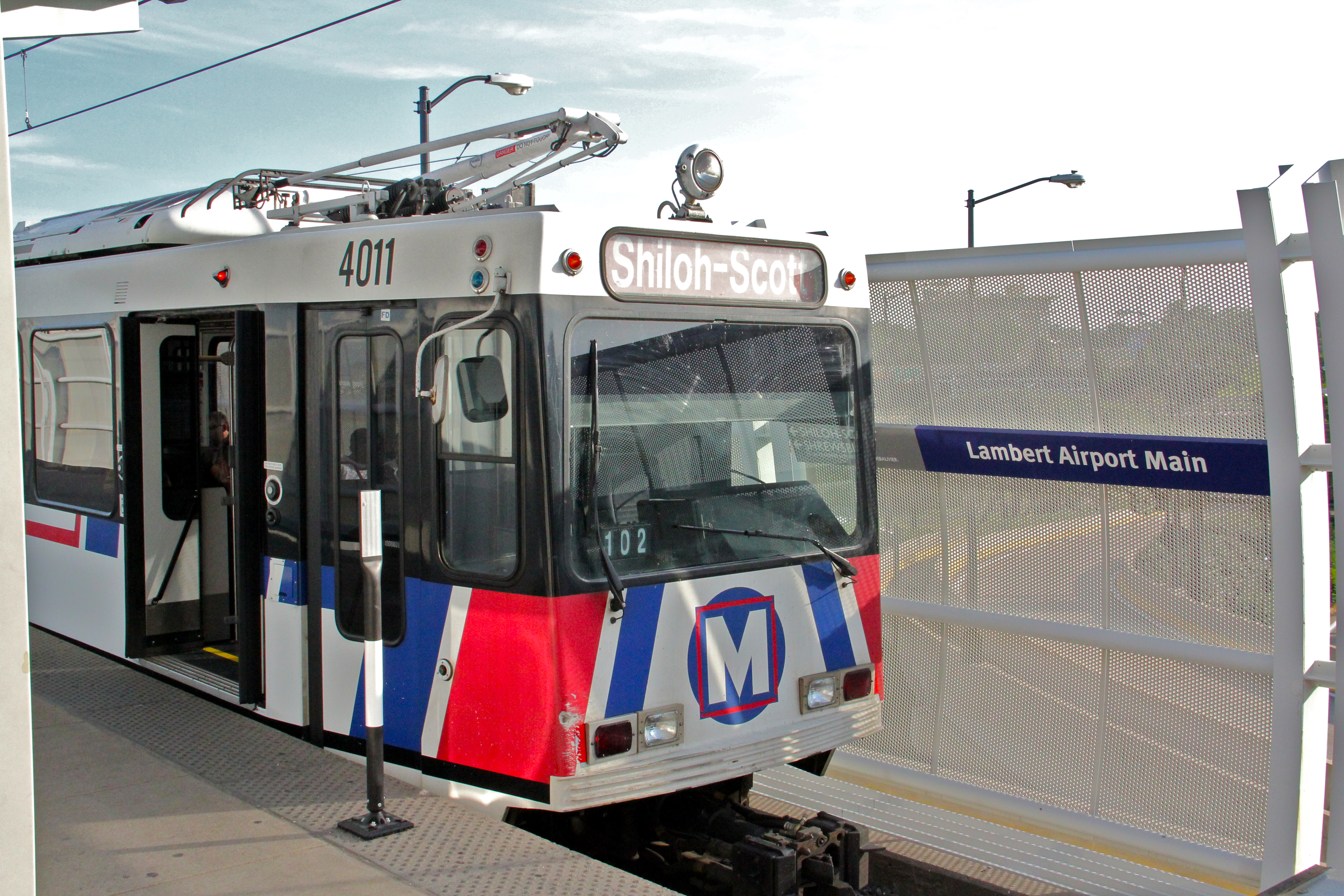 St. Louis metro features a light rail connection direct from the international airport directly to downtown St. Louis in less than 30 minutes Update: As seen on our wedding website showing visitors to St. Louis how to get around town using public transportation